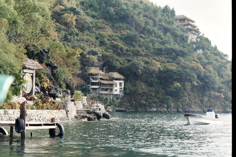 I took this picture in November of 2006. Image of Lake Atitlán, Guatemala, near the "Casa del Mundo" hotel.